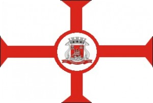 Flag of Arraial do Cabo, state of Rio de Janeiro, Brazil. This work is in the public domain in Brazil for one of the following reasons: It is a work published or commissioned by a Brazilian government (federal, state, or municipal) prior to 1983.(Law 3071/1916, art. 662; Law 5988/1973, art. 46; Law 9610/1998, art. 115) It is the text of a treaty, convention, law, decree, regulation, judicial decision, or other official enactment.(Law 9610/1998, art. 8) This image shows a flag, a coat of arms, a seal or some other official insignia. The use of such symbols is restricted in many countries. These restrictions are independent of the copyright status.